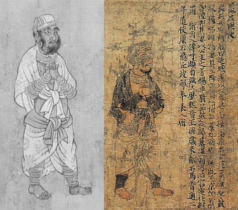 Wo (Kyushu Japan) tributaries 6-7th centuries AD